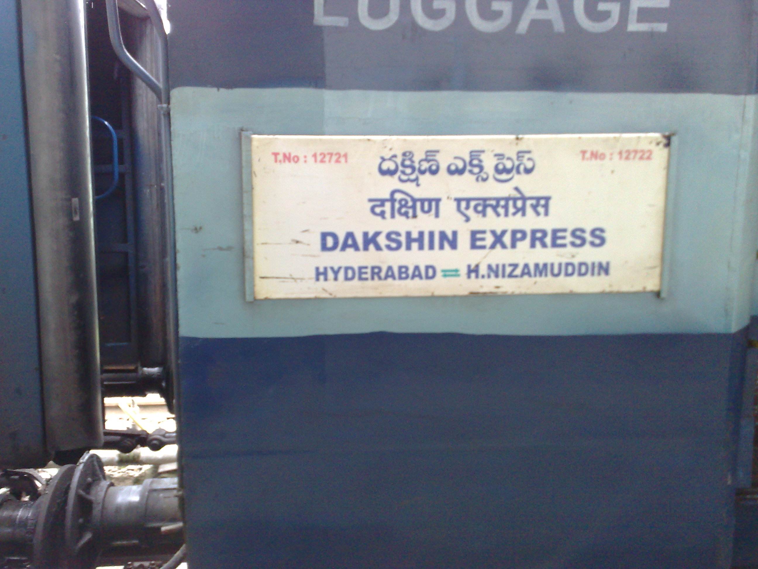 12721 Dakshin Express trainboard